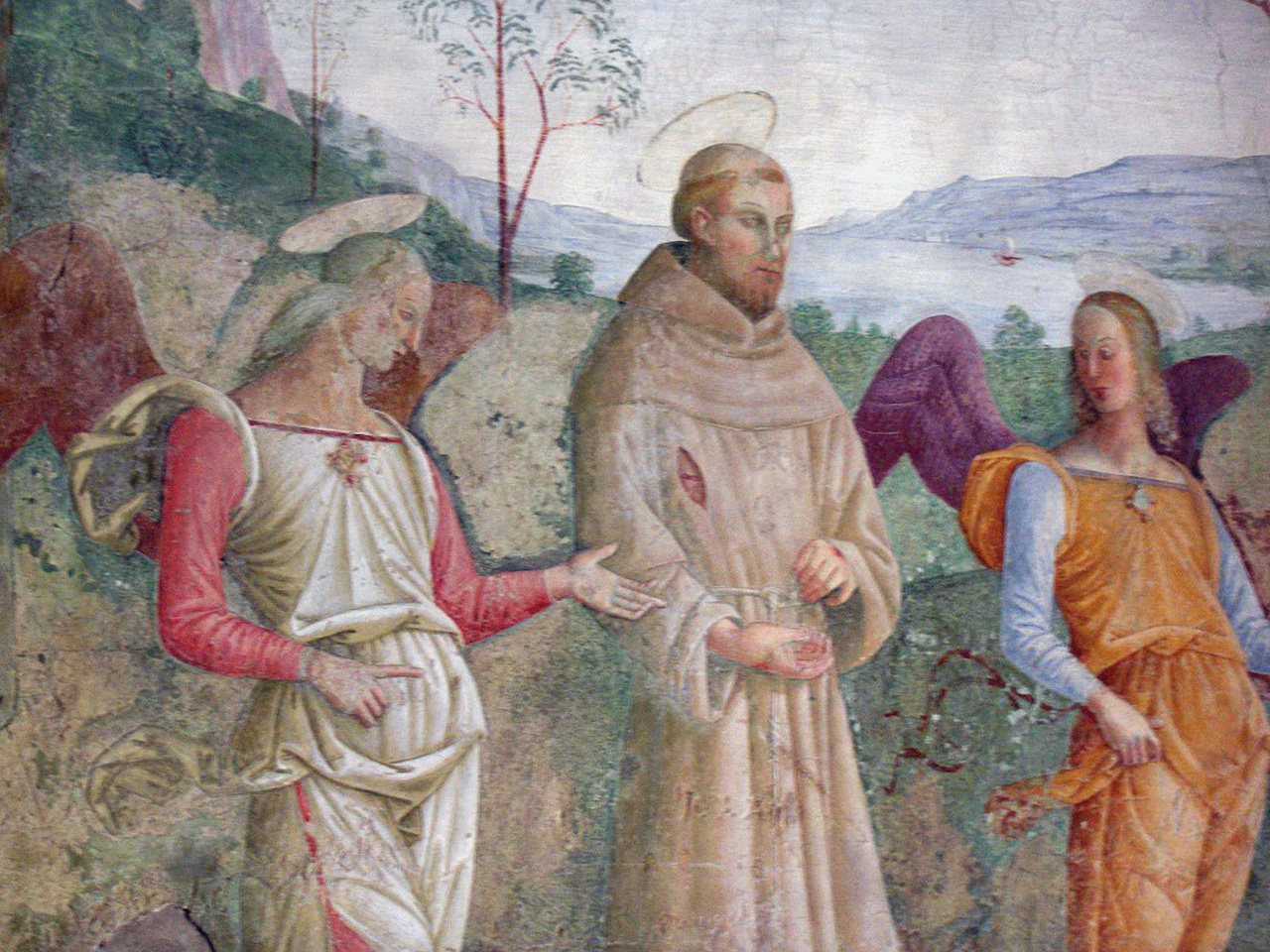 St. Francis receives the Stigmata (anonymous, 18th c.); fresco in the Rose Chapel of the Basilica Santa Maria degli Angeli, Assisi, Italy